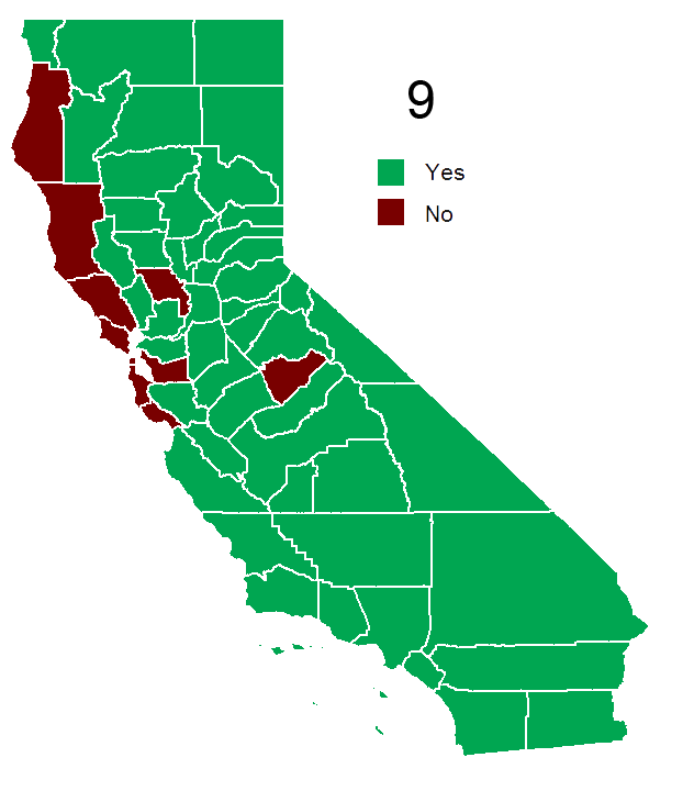 Electoral results by county.